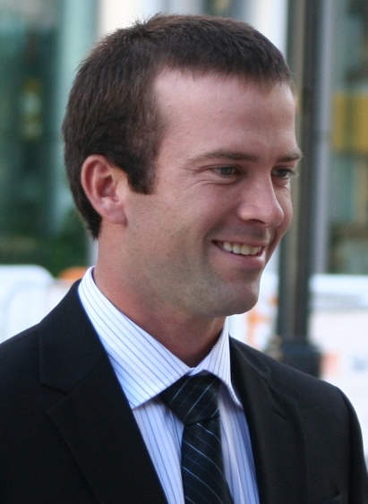 Stars turn out for the movie Get Low at TIFF 2009